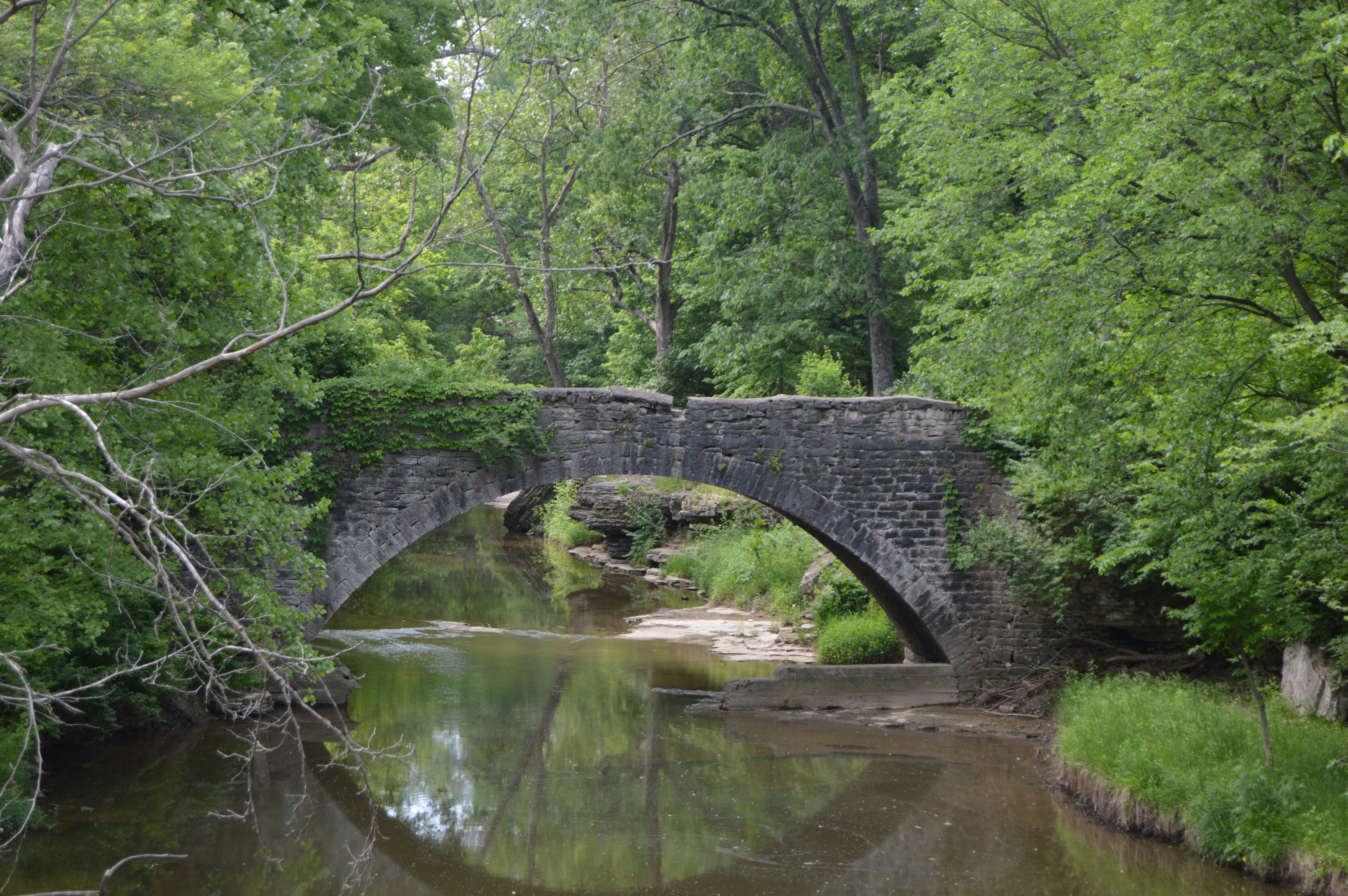 Northern side of the Fountain Creek Bridge, which formerly carried the Valmeyer road west of Waterloo in Precinct 22, Monroe County, Illinois, United States. Built in 1849, it is listed on the National Register of Historic Places.